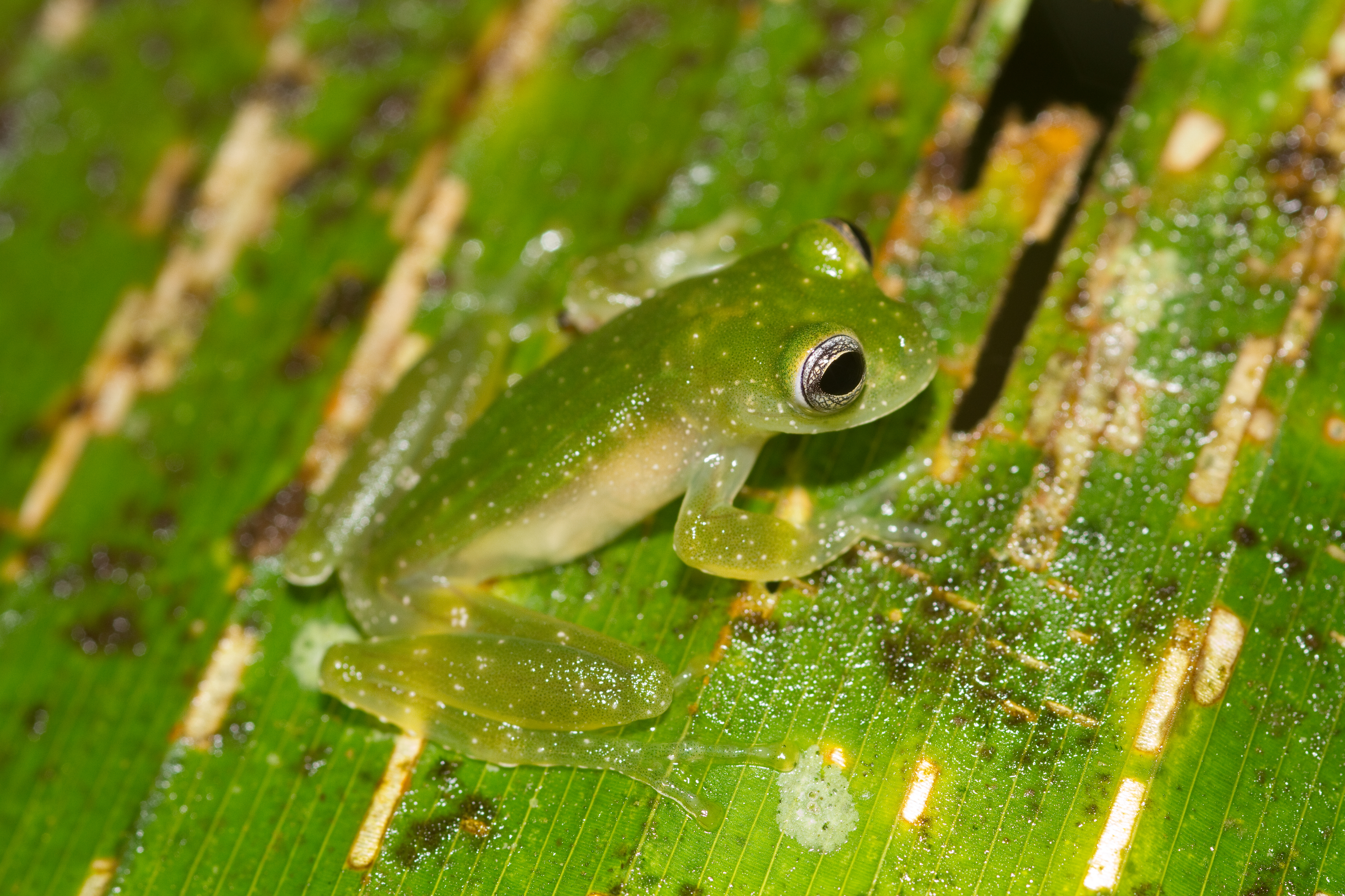 C. pulverata is a small glassfrog that lacks humeral spines in males and has a lobed bulbous liver, placing it in the genus Cochranella. Adult males measure 22-24.5 mm from the snout to the vent, while the females are a bit larger at 25.3-28.3 mm snout-vent length. The snout is rounded if seen from above, but presents a distinctly sloped profile when viewed from the side. The translucent eardrum is visible but not large, measuring about one-fifth to one-fourth of the eye's diameter; the tympanic annulus is not hidden except for the dorsal margin which is covered by the supratympanic fold.[2] Their color is green above, with a rich scattering of small white spots – hence the species' scientific name, which means "the powdered one". The back has a rough shagreen-like texture, particularly in males where it is covered in tiny spicules. The belly is transparent and has a grained texture. Thus, the green bones and some internal organs can be observed in the living animal – particularly as this species' parietal (outer) peritoneum is completely translucent too; the inner peritonea covering the liver and gastrointestinal tract are white. The iris is greyish white with tiny yellow dots and a network of thin dark grey lines; a thin cream-yellow ring surrounds the pupil. Melanophores are abundant on the dorsal surface of the fourth finger, but absent on the first three fingers. Preserved specimens are usually cream-colored to light lavender above, with the spotting remaining white or becoming transparent.[2]